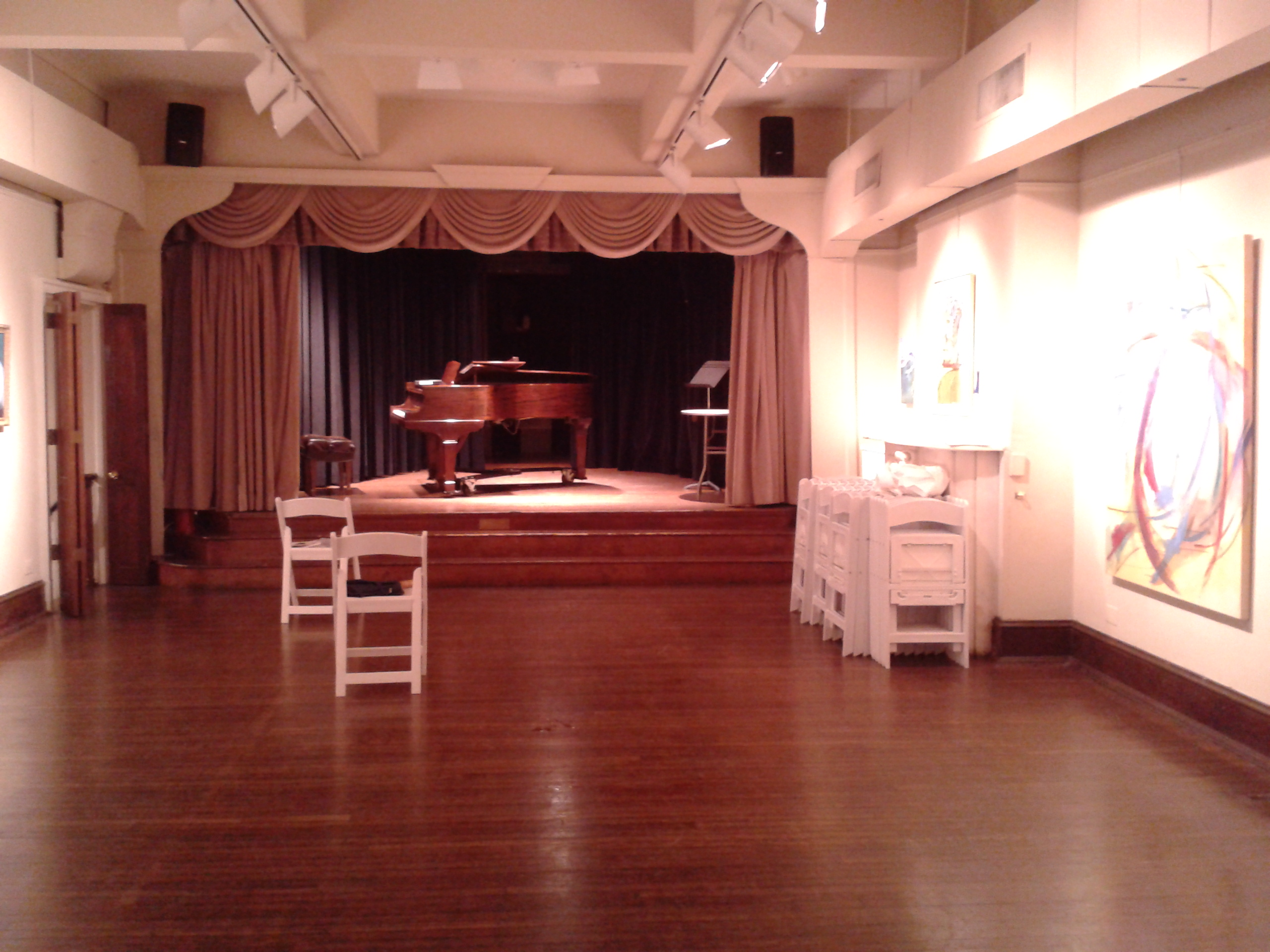 Image taken by me for Wikimedia commons